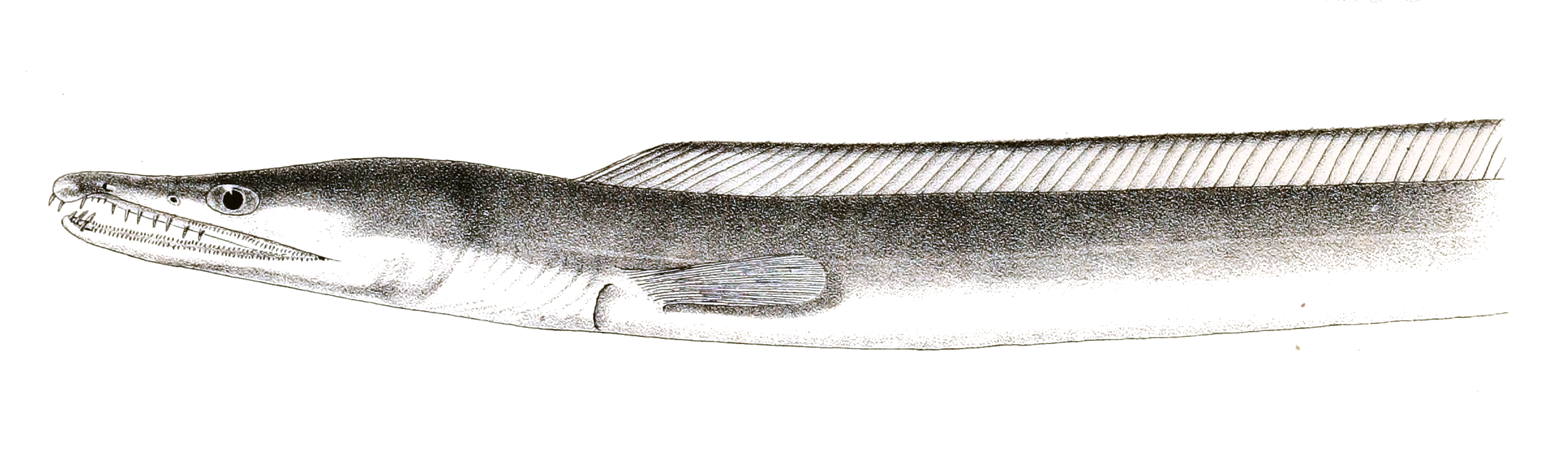 The species names / identity need verification - original names from plate are included here. The original plates showed the fishes facing right and have been flipped here. Muraenesox telabon